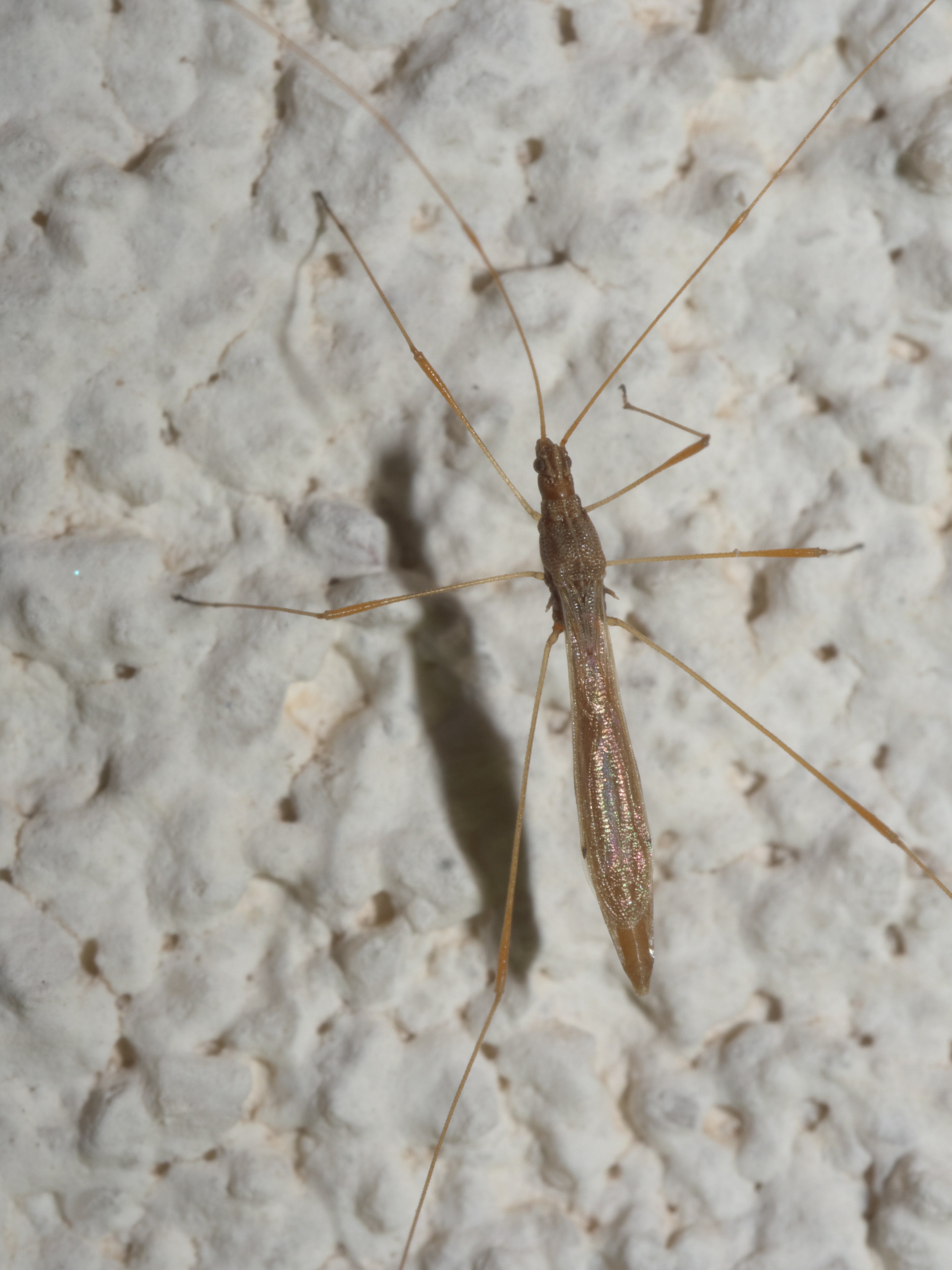 Jalysus wickhami, Spined Stilt Bug, Size: 7.5 mm, ID Confidence: 98